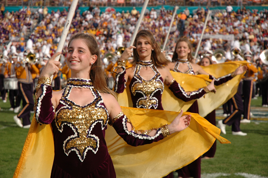 Members of the LSU Colorguard perform at halftime of the 2004 Capital One Bowl.